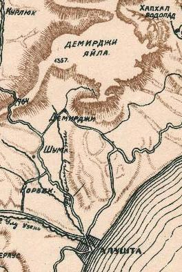 Fragment of a map of southern Crimea, published in 1924